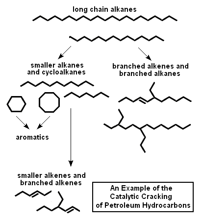 Schematic diagram exemplifying how catalytic cracking breaks large molecules into smaller ones